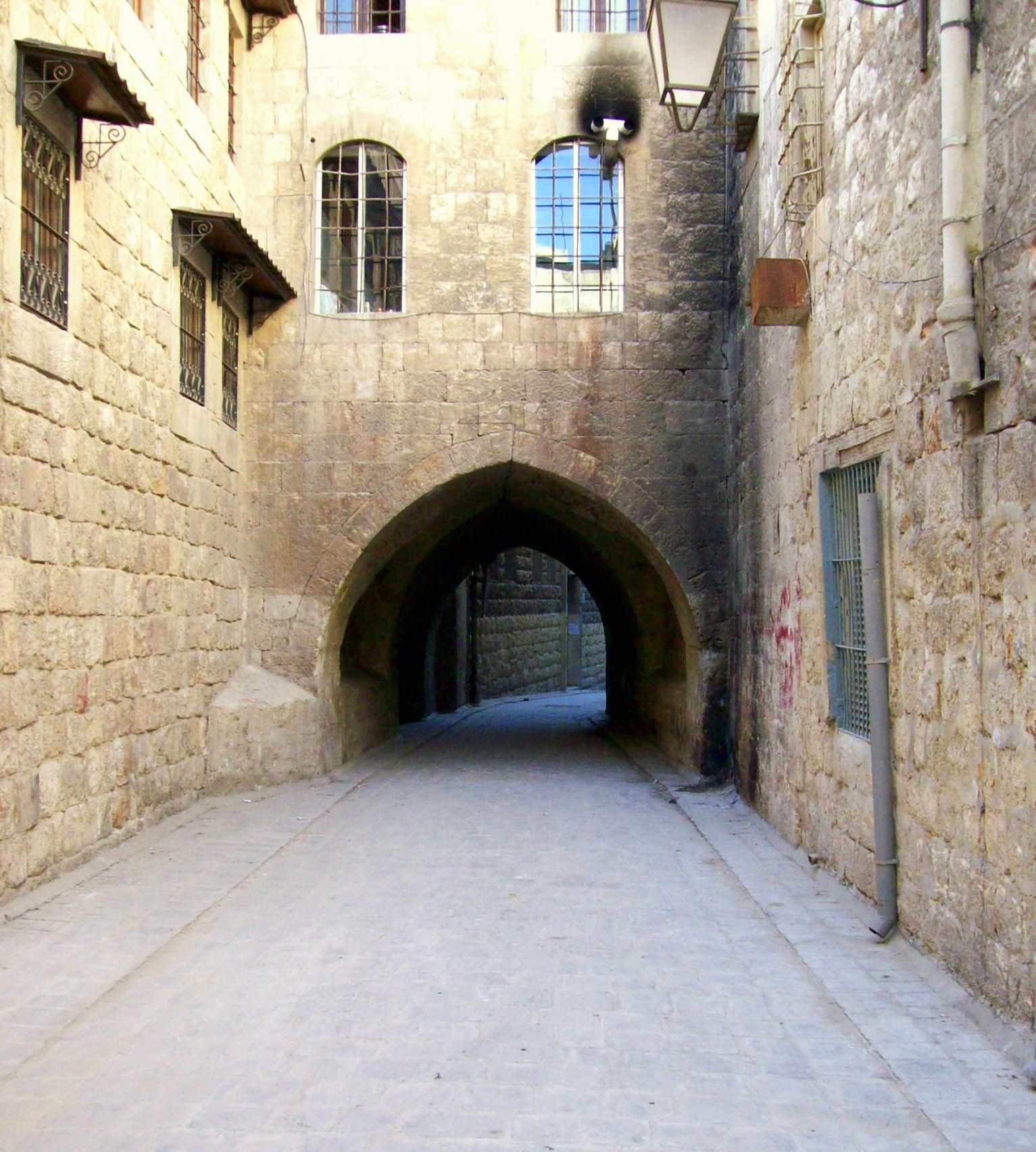 Qalayet al-Mawarina (meaning the Maronite Beshop's Residence) alley at the Jdeydeh Christian quarter of Aleppo. The building at the left is the Haygazian Armenian School.